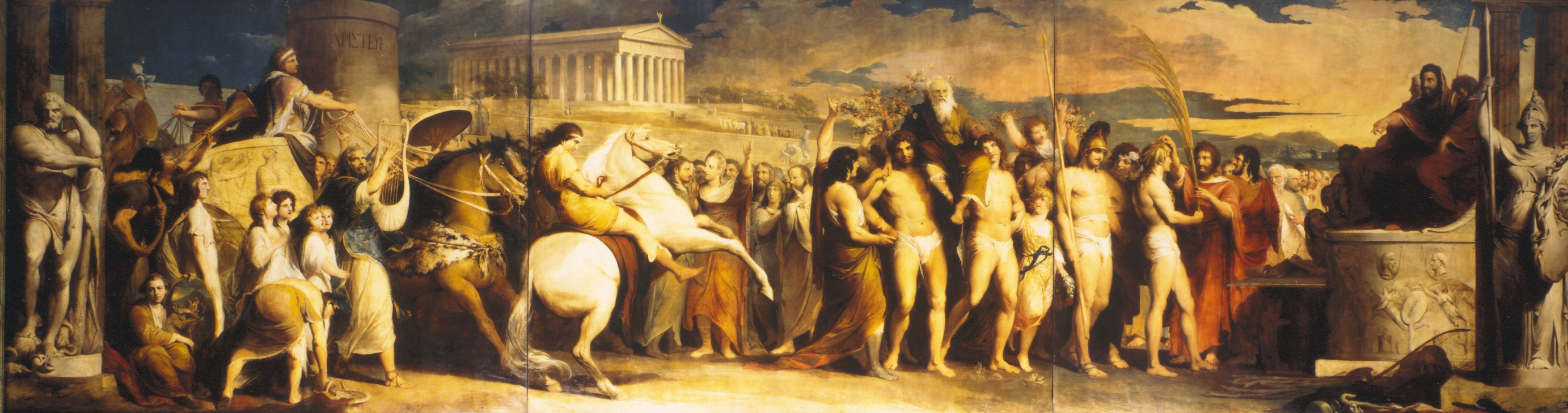 Crowning of Victors at Olympia, London, UK